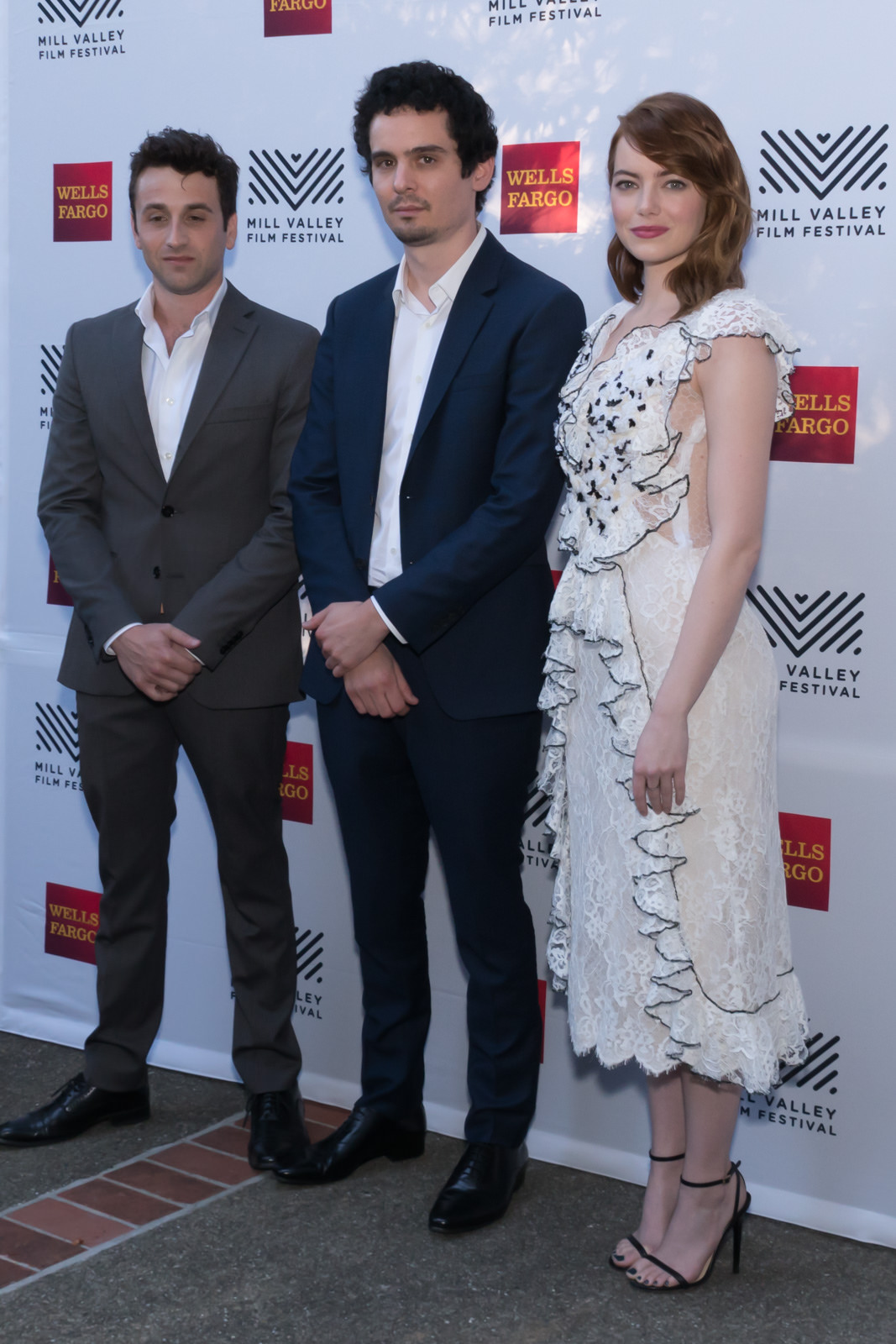 Emma Stone, Justin Hurwitz, Damien Chazelle on 39th Mill Valley Film Festival